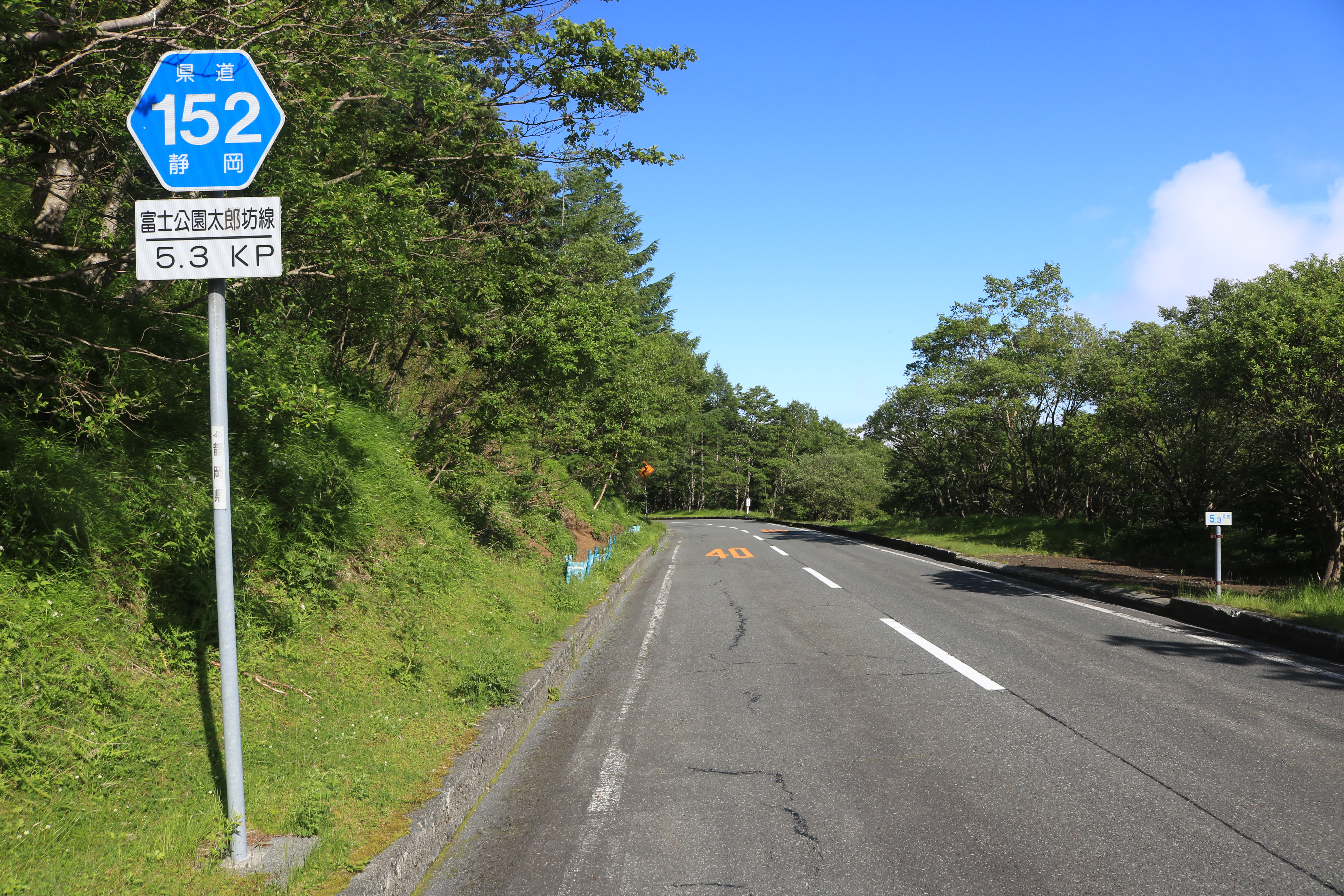 5.3km Point of Shizuoka Prefectural Road Route 152 in Obuchi, Fuji, Shizuoka Prefecture, Japan.